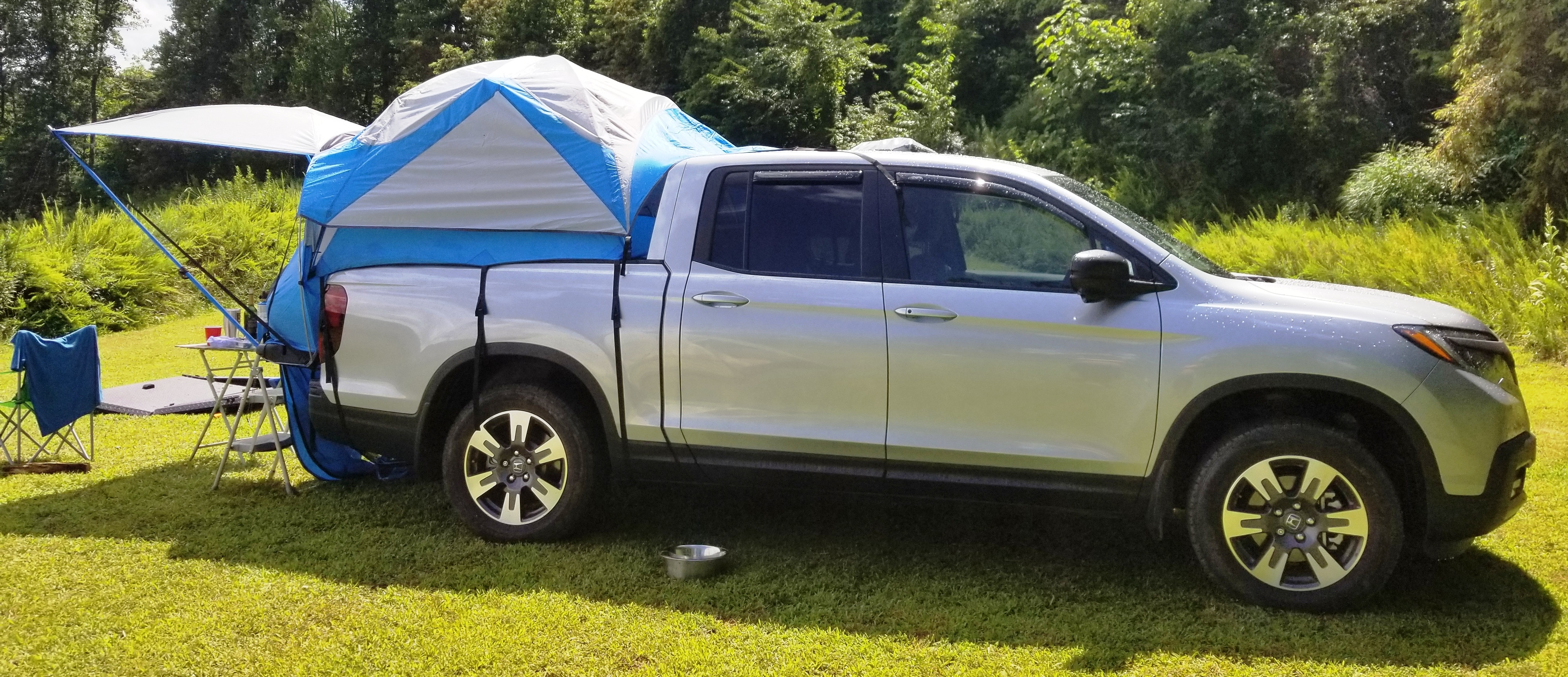 Picture of the 2017 US Honda Ridgeline RTL-T (front-wheel drive) with the Honda Bed Tent and an aftermarket AVS In-Channel Low Profile Ventvisors